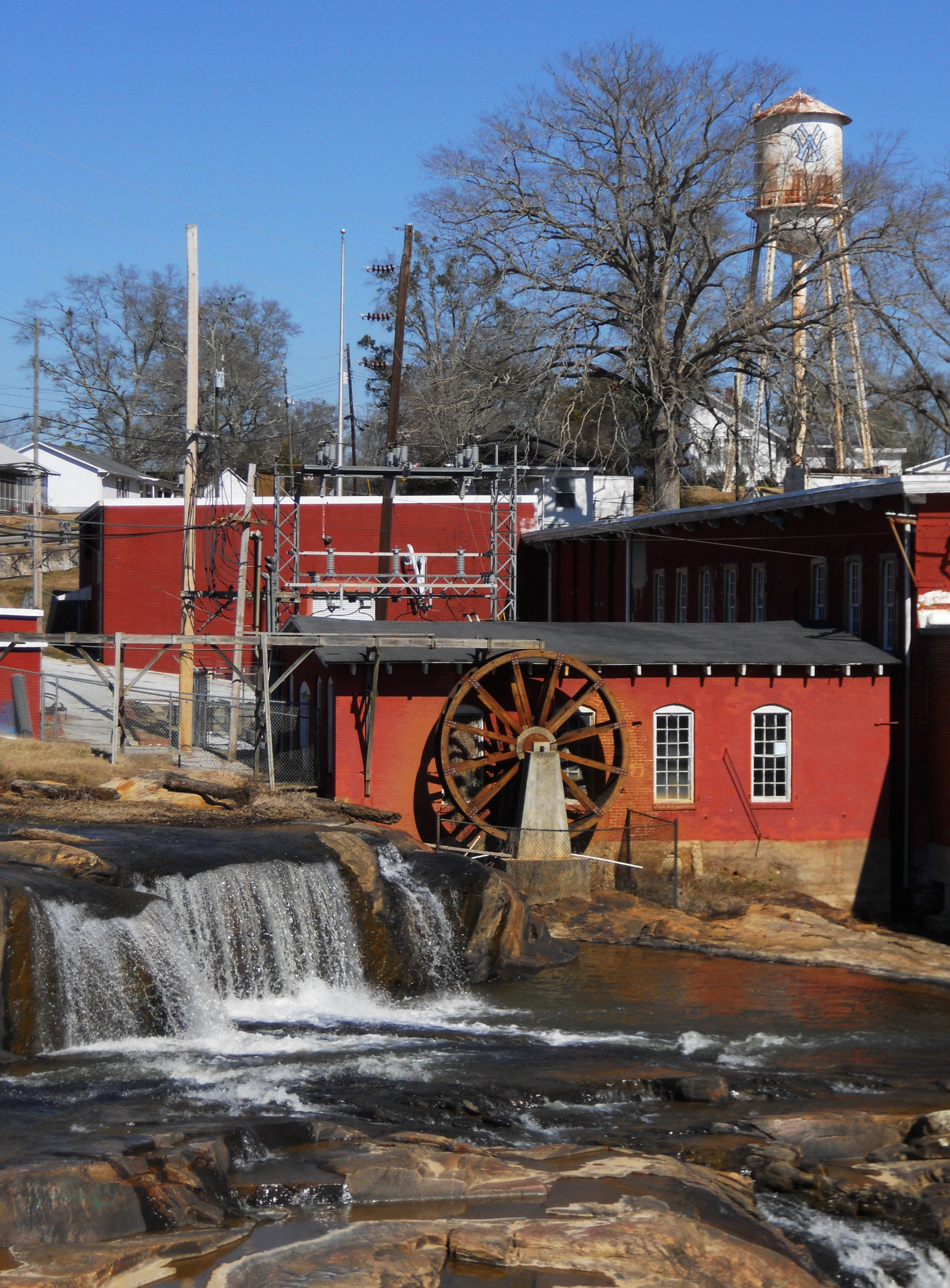 This is a photograph of Rock Mills, Alabama.